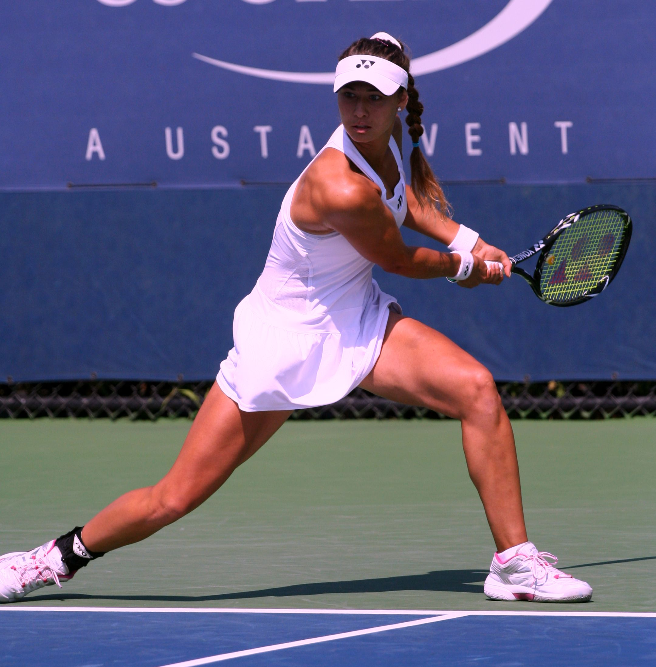 Vitalia Diatchenko at the 2011 U.S. Open Friday, Sept. 2, 2011